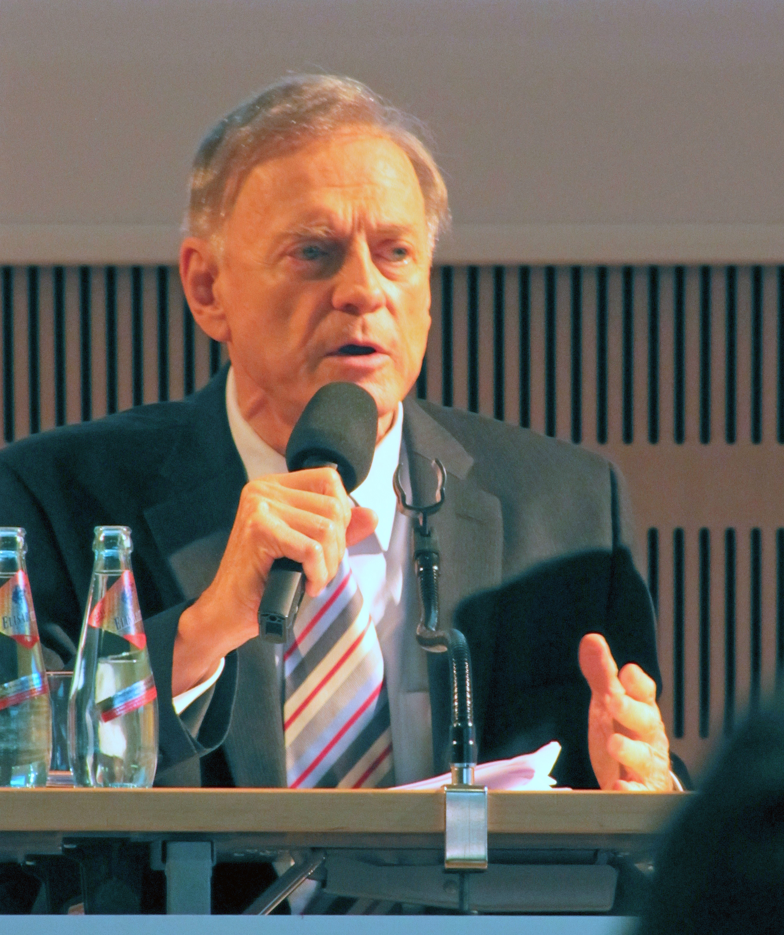 Avi Primor (Israeli publicist and former diplomat), 2010 in Frankfurt am Main, Germany.